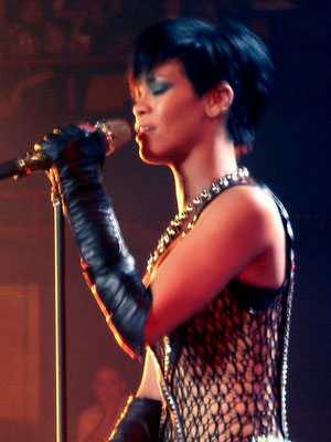 Rihanna and Chris Brown concert, Brisbane Entertainment Centre